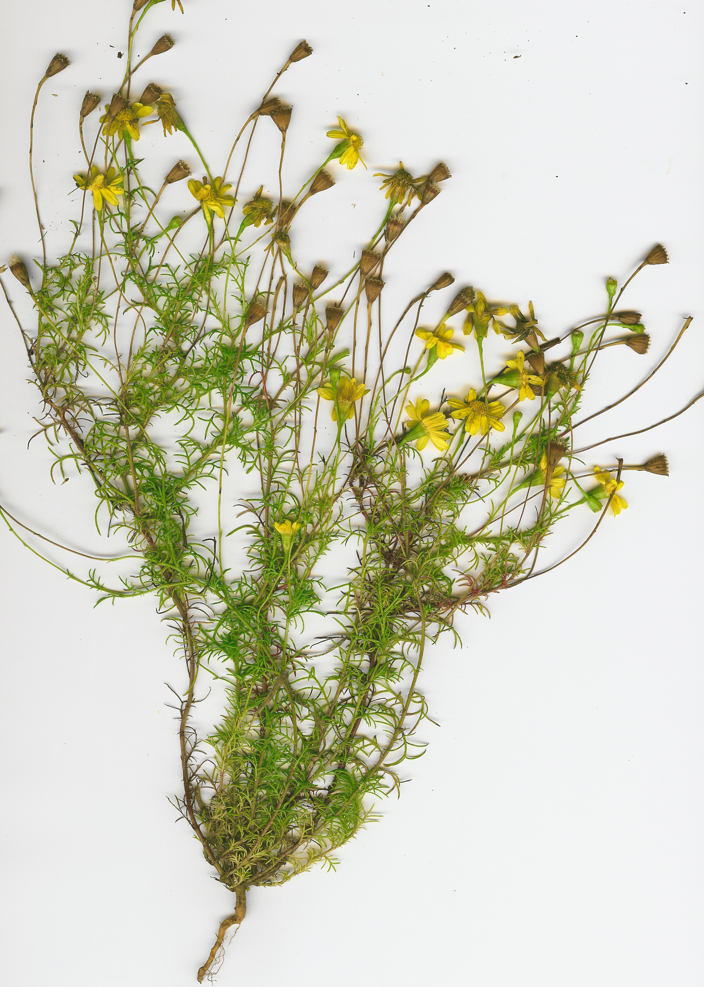 Dyssodia tenuiloba (plant). Location: Molokai, Kaunakakai